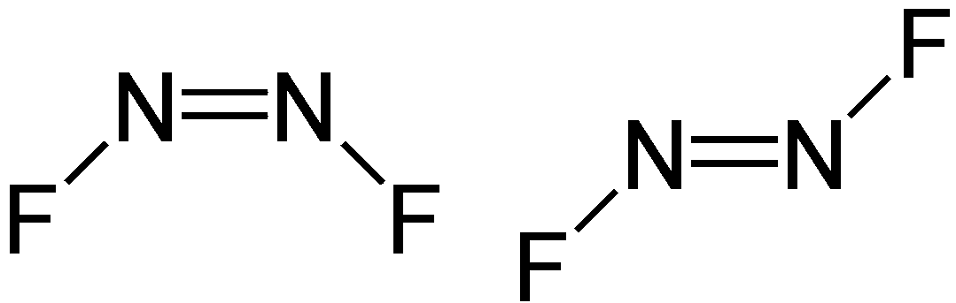 Structure of nitrogen(I) fluoride